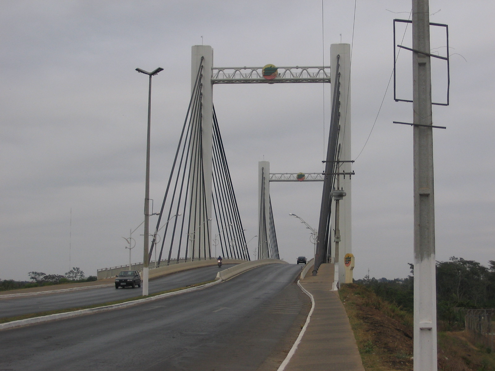 Sérgio Motta Bridge, in Cuiabá, Mato Grosso, Brazil